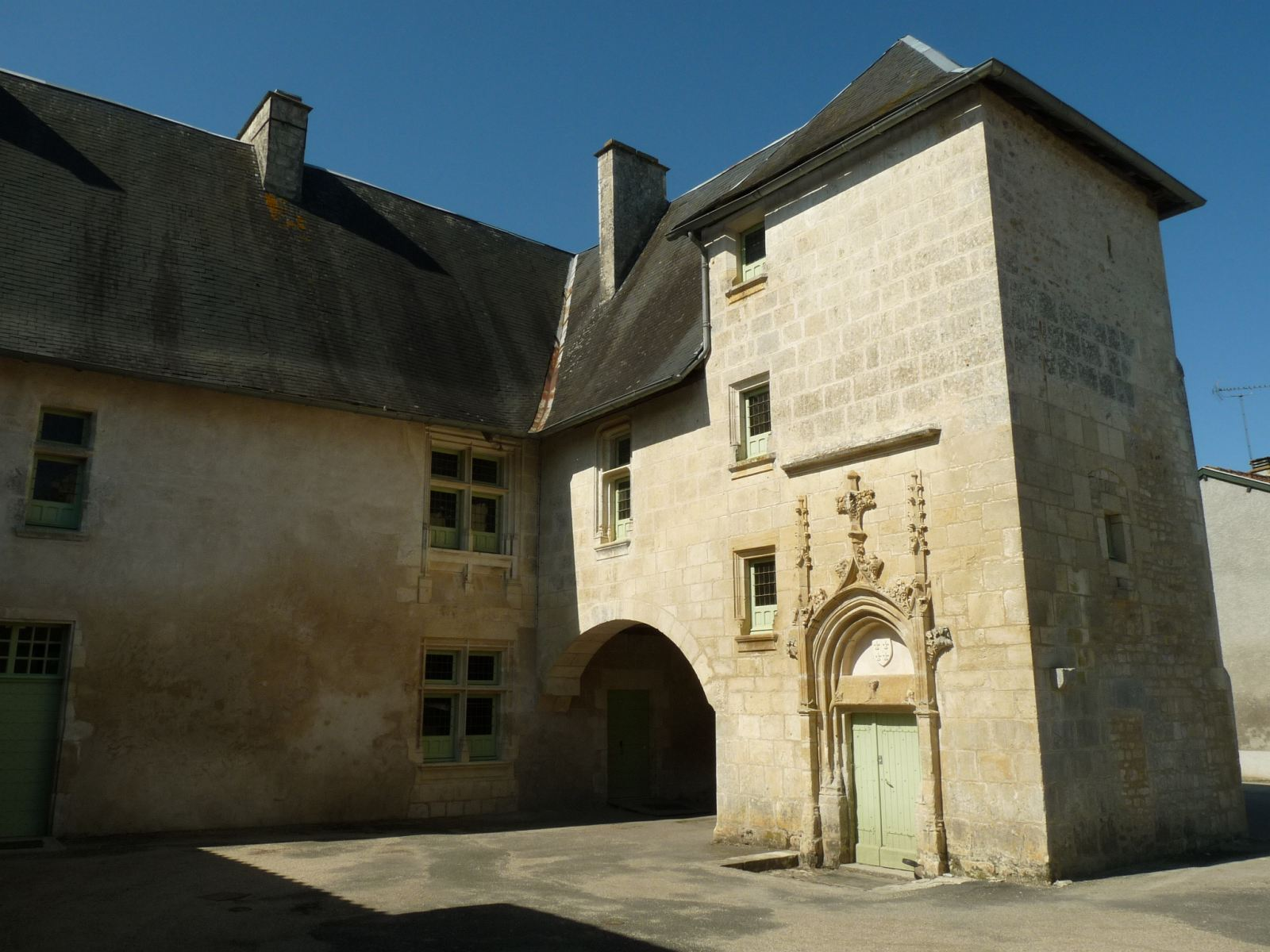 castle of St-Amant-de-Bonnieure, Charente, SW France